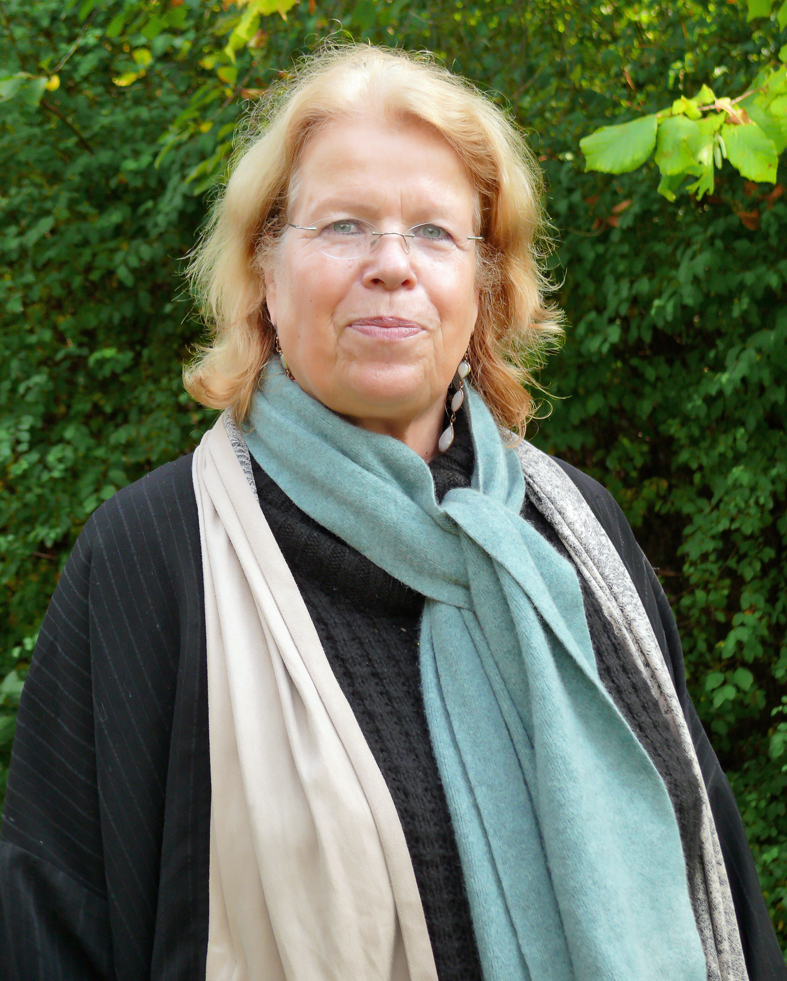 Actress and Christian missionary Erdmute Schmid-Christian